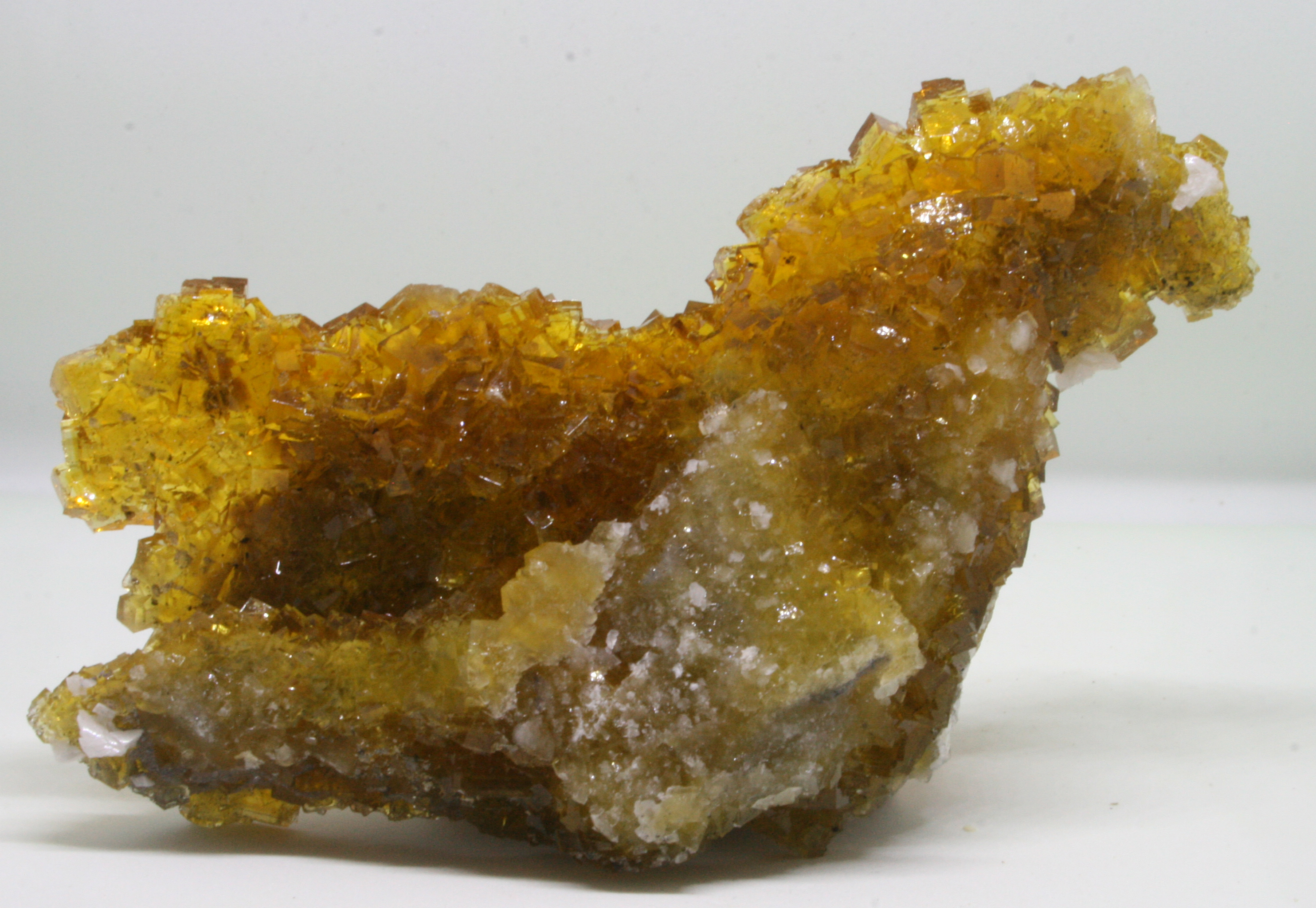 Yellw fluorite as cubic crystals, Moscona mine, Solís, Corvera de Asturias, Spain